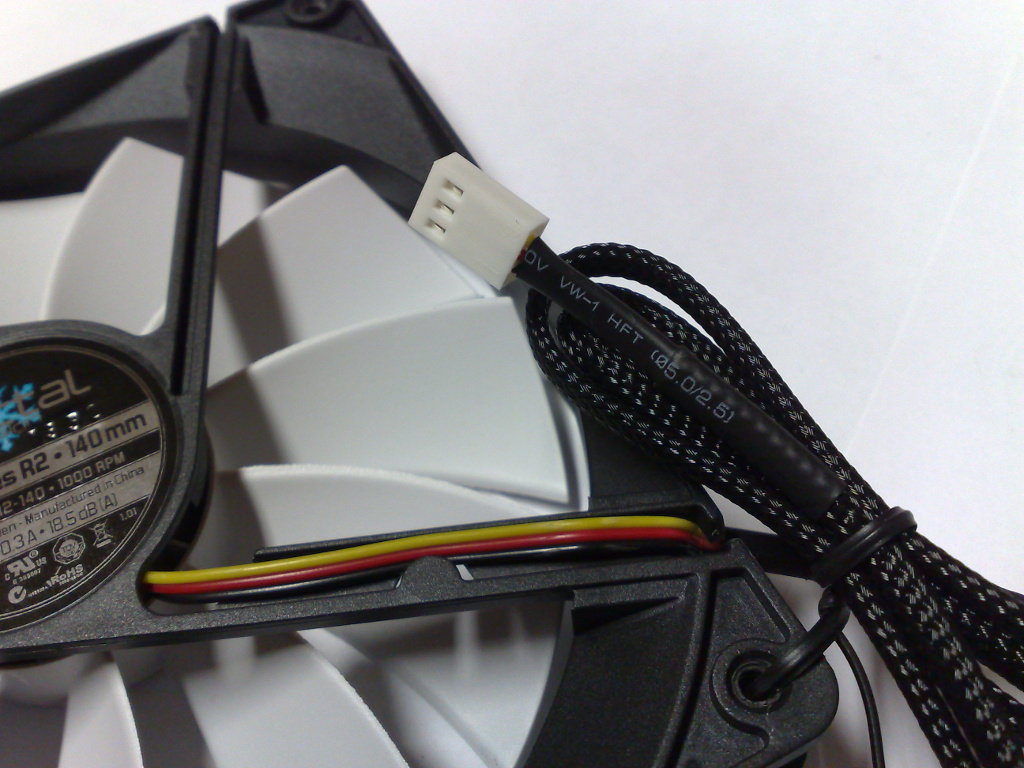 Three-pin connector on a computer fan (the fan itself is a Fractal Design Silent Series R2 140 mm, p/n FD-FAN-SSR2-140)